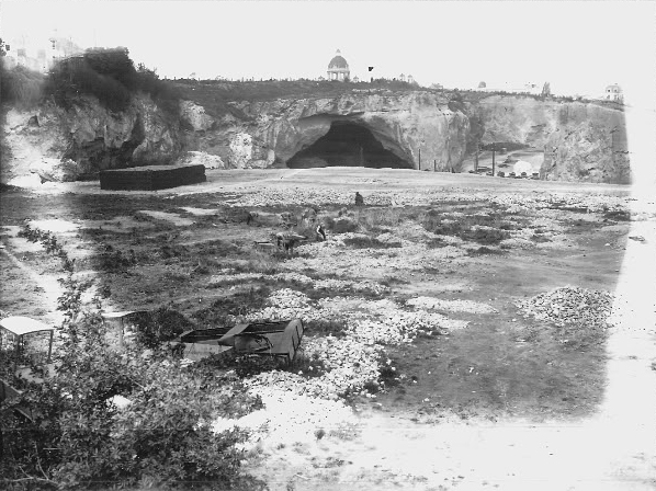 Old Belgrade Streets